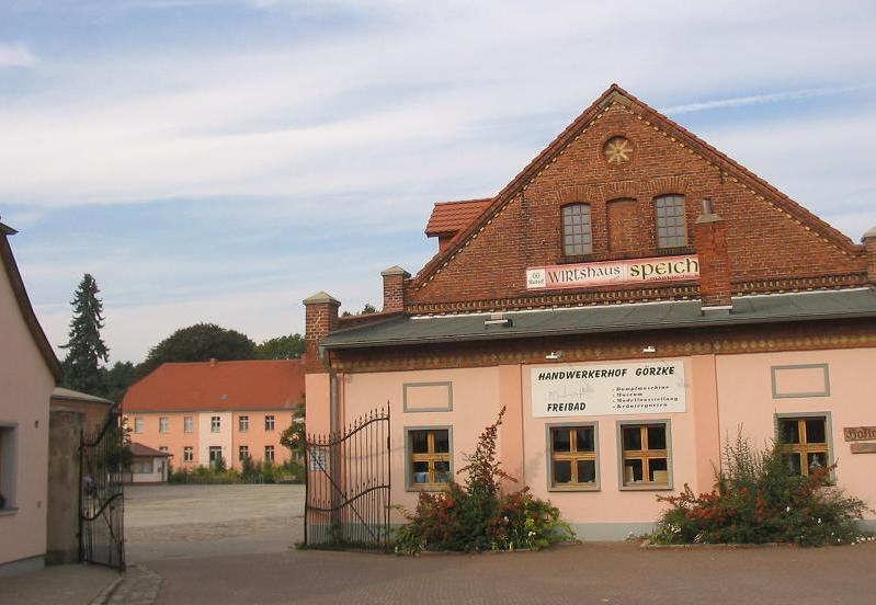 Handicraftshouse in Görzke. Görzke is a municipality in the district Potsdam Mittelmark, state Brandenburg, Germany. The village appertains to the nature park Naturpark Hoher Fläming.